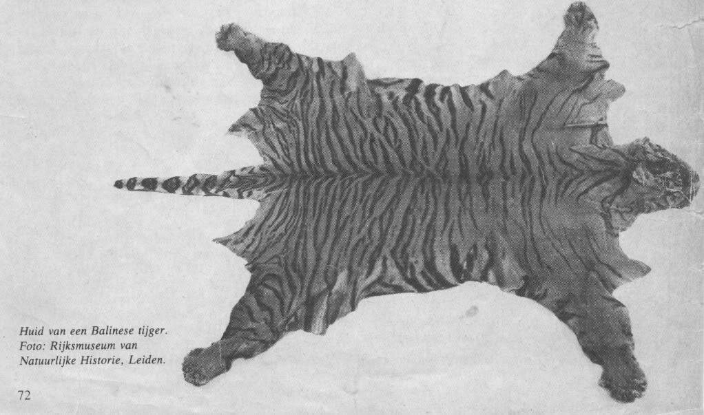 One of the few preserved skins of Panthera tigris balica